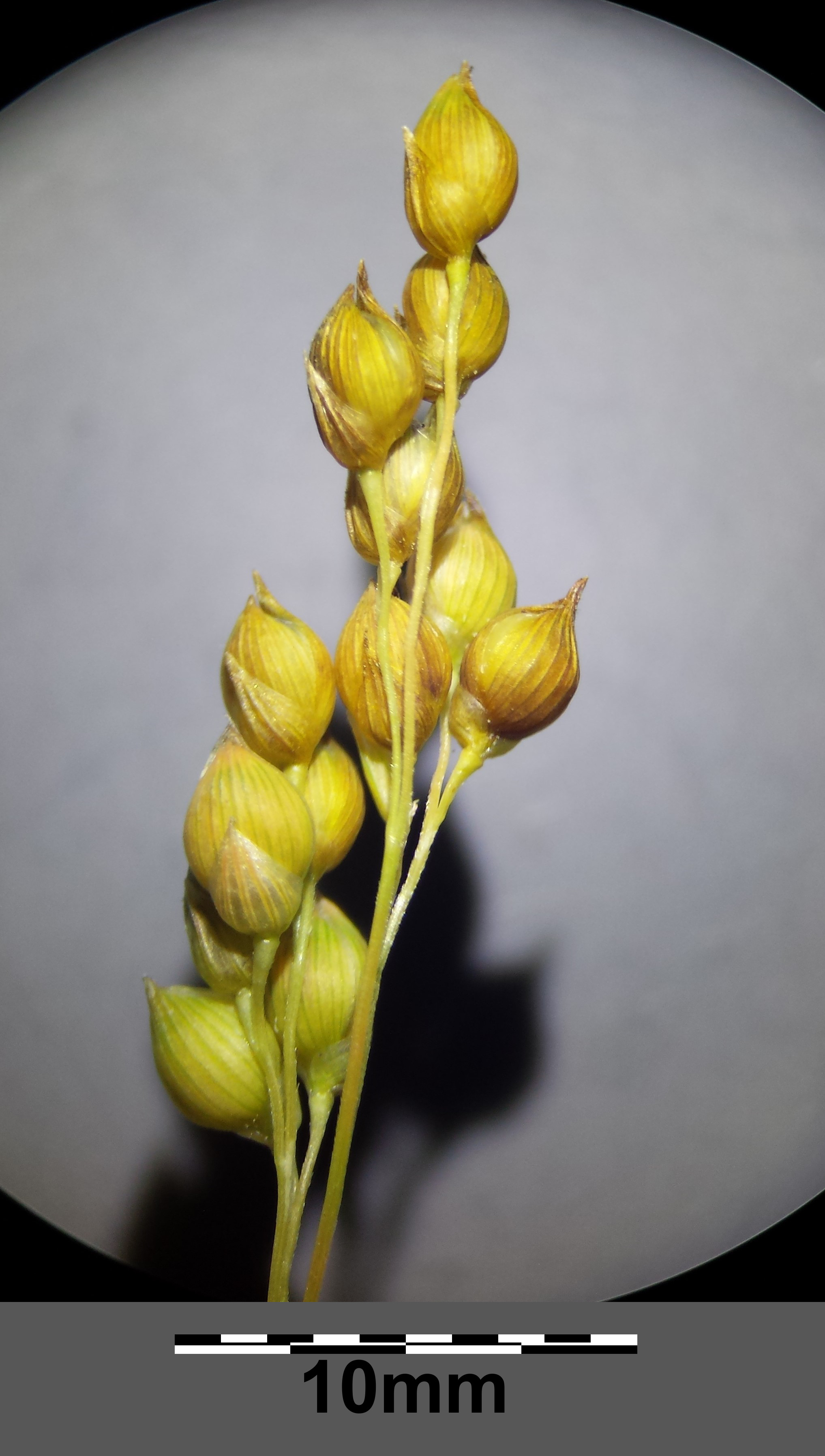 Branch of panicle with spikelets Taxonym: Panicum miliaceum subsp. miliaceum ss Fischer et al. EfÖLS 2008 ISBN 978-3-85474-187-9 Location: Schichtgründe, Leopoldau, Vienna-Floridsdorf - ca. 160 m a.s.l. Habitat: building zone